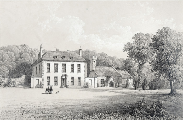 A view of a Manor house and a church at Gileston with a woman and two children on the front lawn.